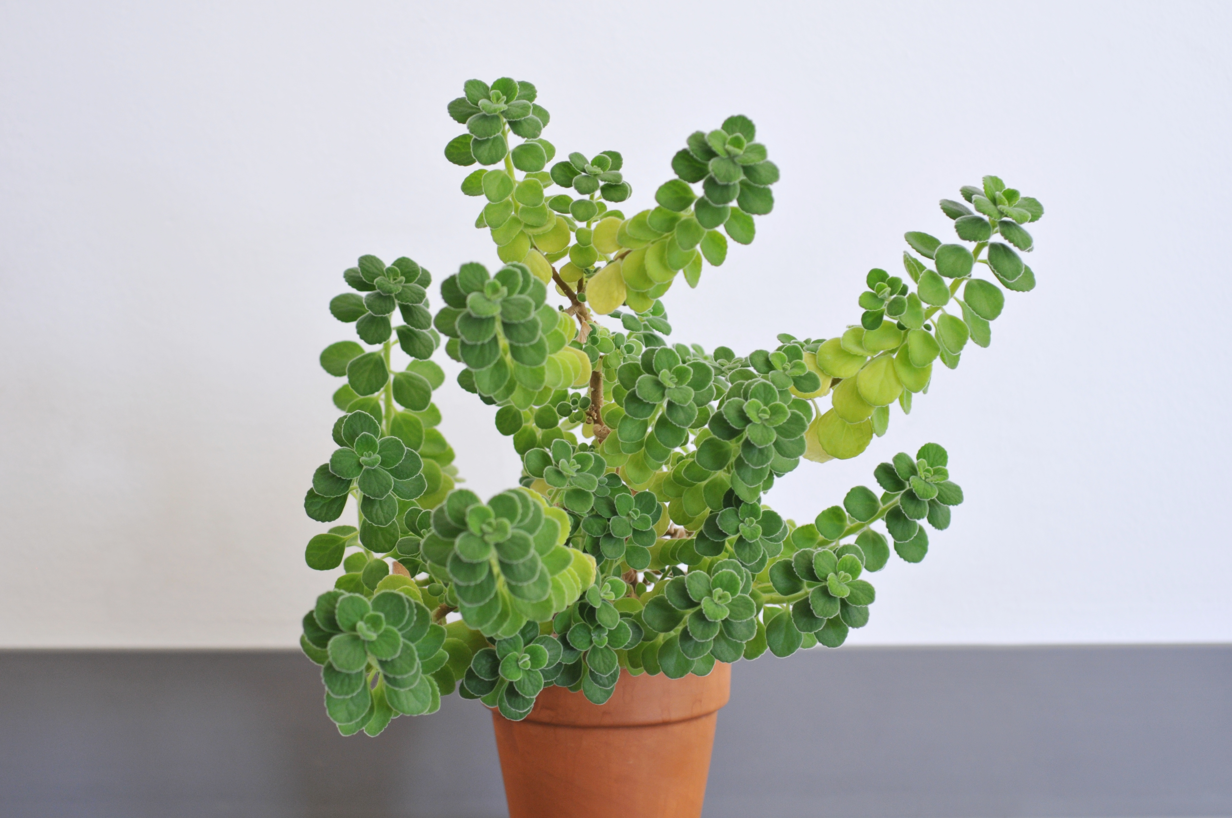 Plectranthus amboinicus, Cuban oregano, in the Lamiaceae family. Originally posted on Flickr.